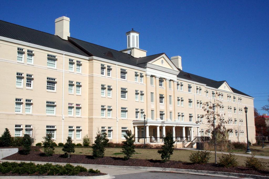 Brandon Davis, Photo of USC's West Quad.